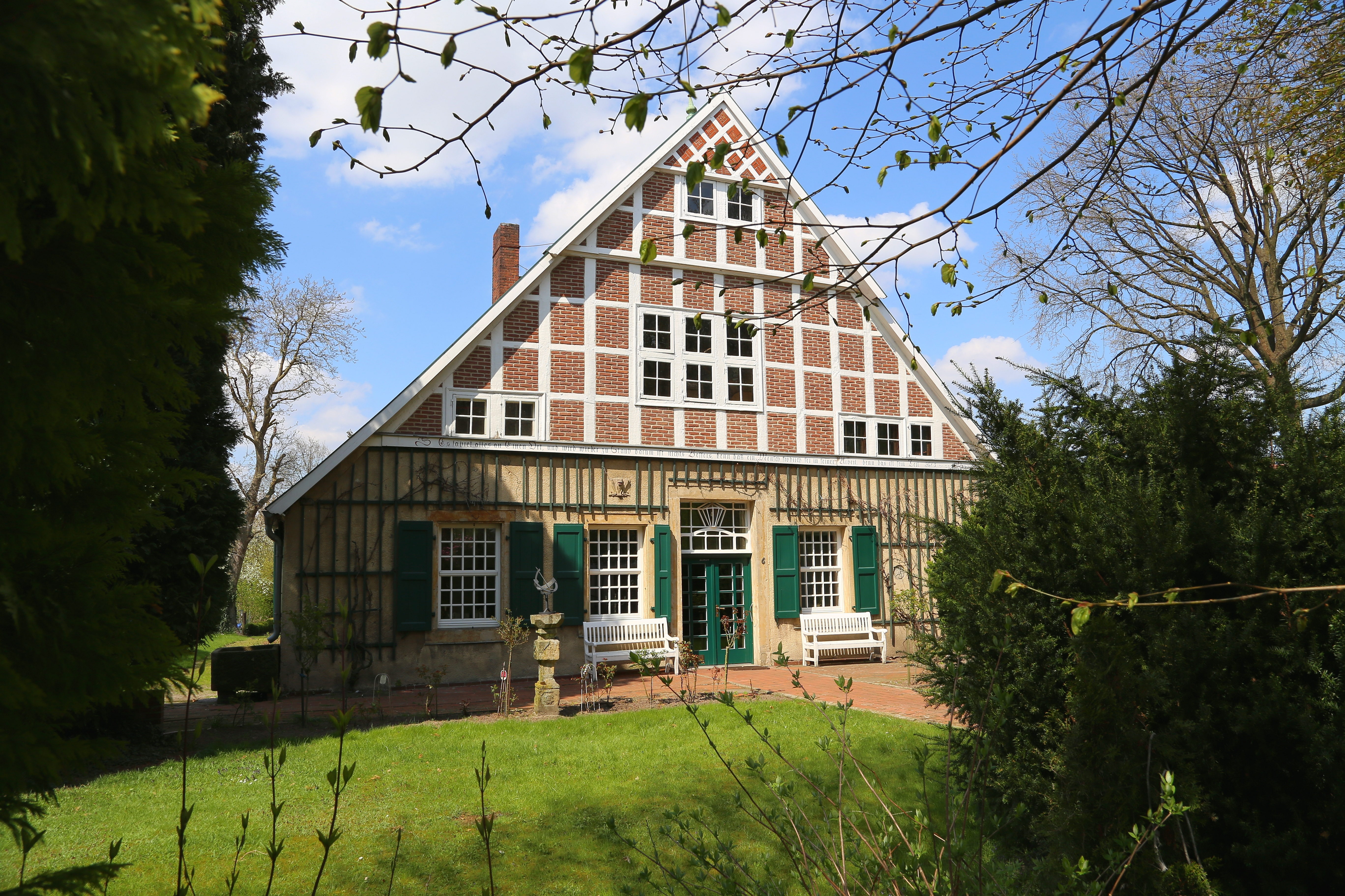 Haus Nieland (Nieland House) in Hopsten, Kreis Steinfurt, North Rhine-Westphalia, Germany.